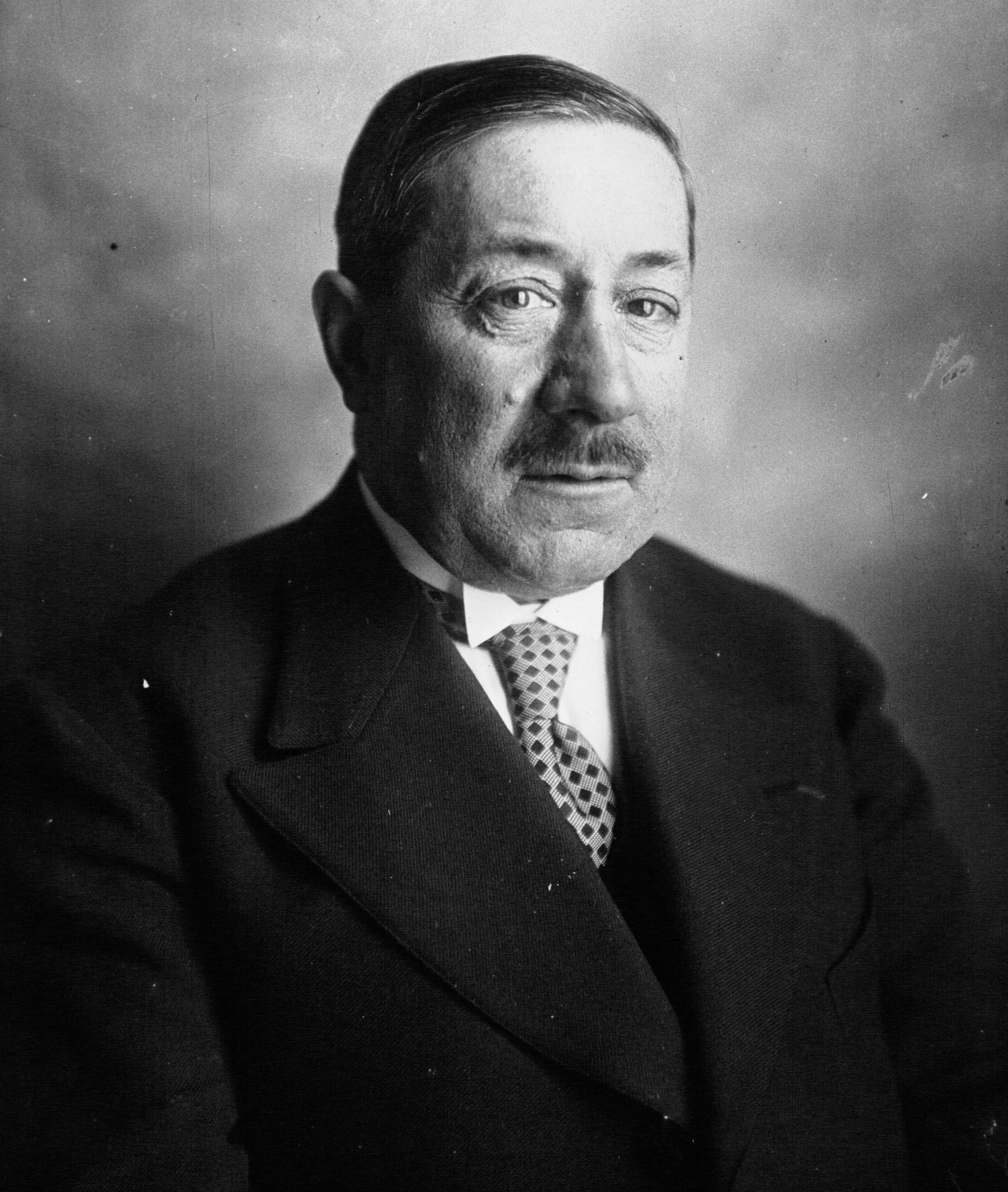 Portrait of the Occitan politician Robèrt Lassala